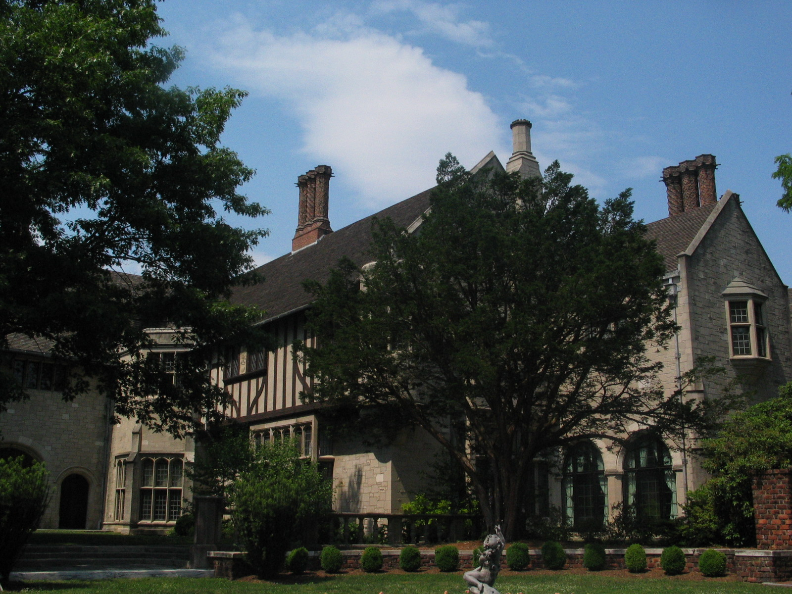 Coe Hall as seen from other side.